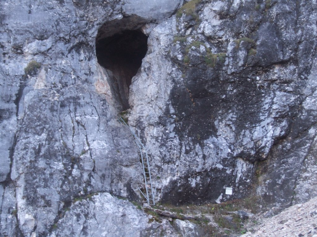 Main entrance of Hirlatz cave, Austria This media shows the natural monument in Upper Austria with the ID nd600.